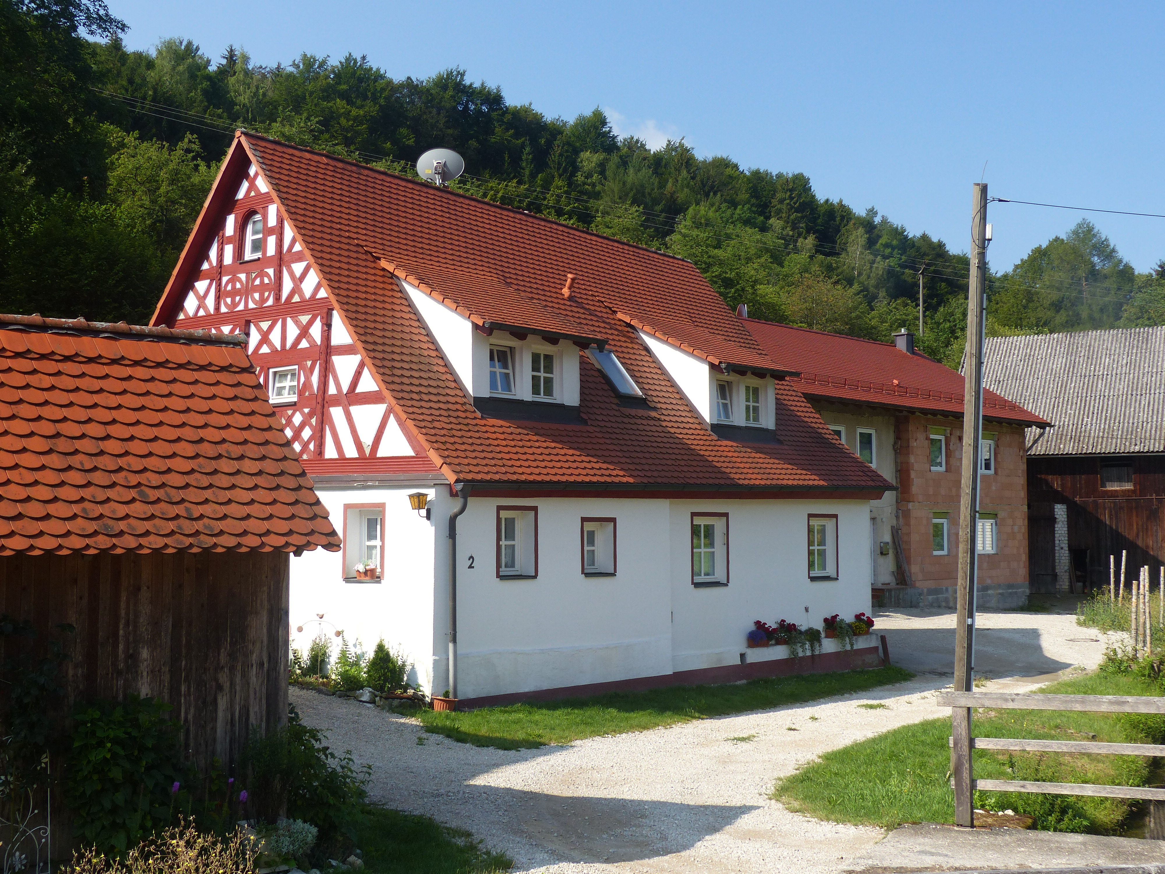 A farmhouse in the village Urspring, a district of the municipality of Pretzfeld.